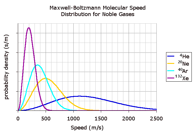 Plot of Maxwell Boltzmann distribution of speeds of noble gasses. The plot is of f(v) dv and since I added units along the x-axis of m/s (that is distance per time), the pdf had units s/m. I made this image, and am placing it in the public domain. Pdbailey 17:51, 24 Oct 2004 (UTC) Format Category:Probability distributions images